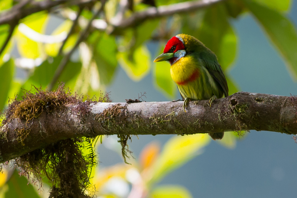 A male Versicolored barbet photographed northeast of Cusco in the Puno Region of Peru